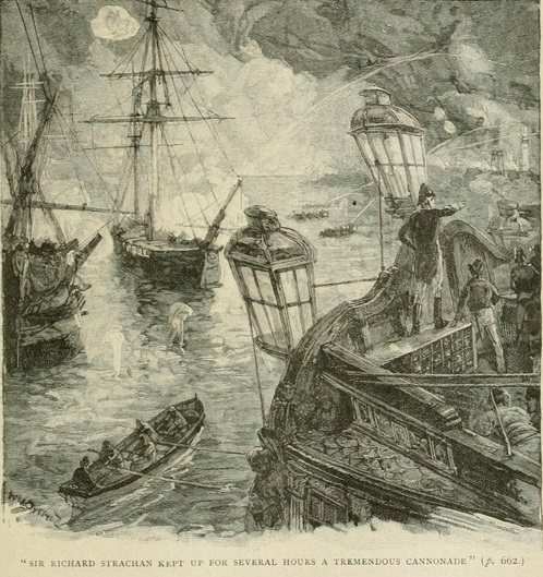 "Sir Richard Strachan kept up for Several Hours a Tremendous Cannonade". Illustration for Battles of the Nineteenth Century (Cassell, 1896).